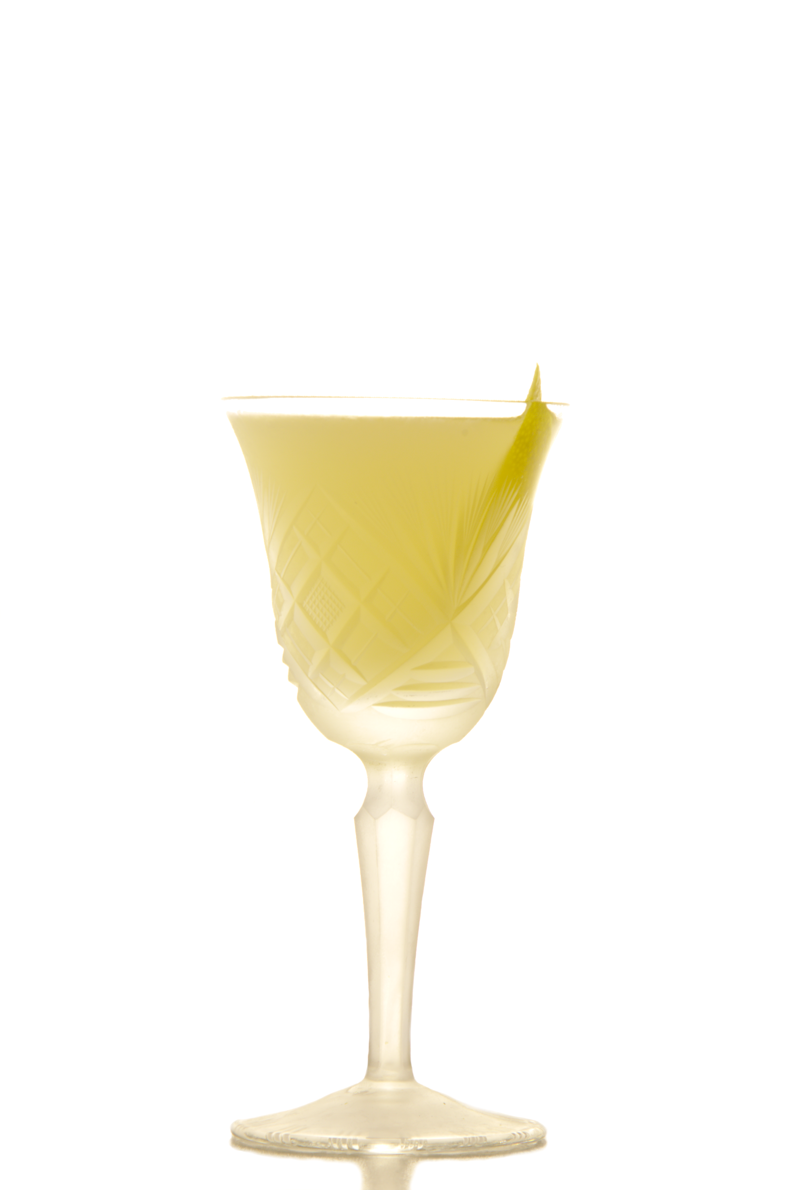 Rhubarb Gimlet (cocktail), a variation of the classic gimlet cocktail.